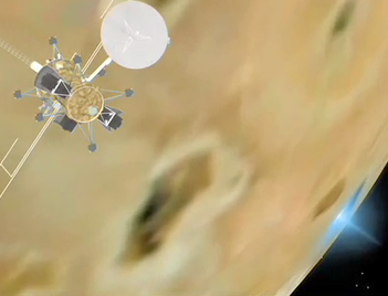 Screenshot from NASA video showing an encounter by the Jupiter Europa Orbiter of Jupiter's Moon Io on December 27, 2026.